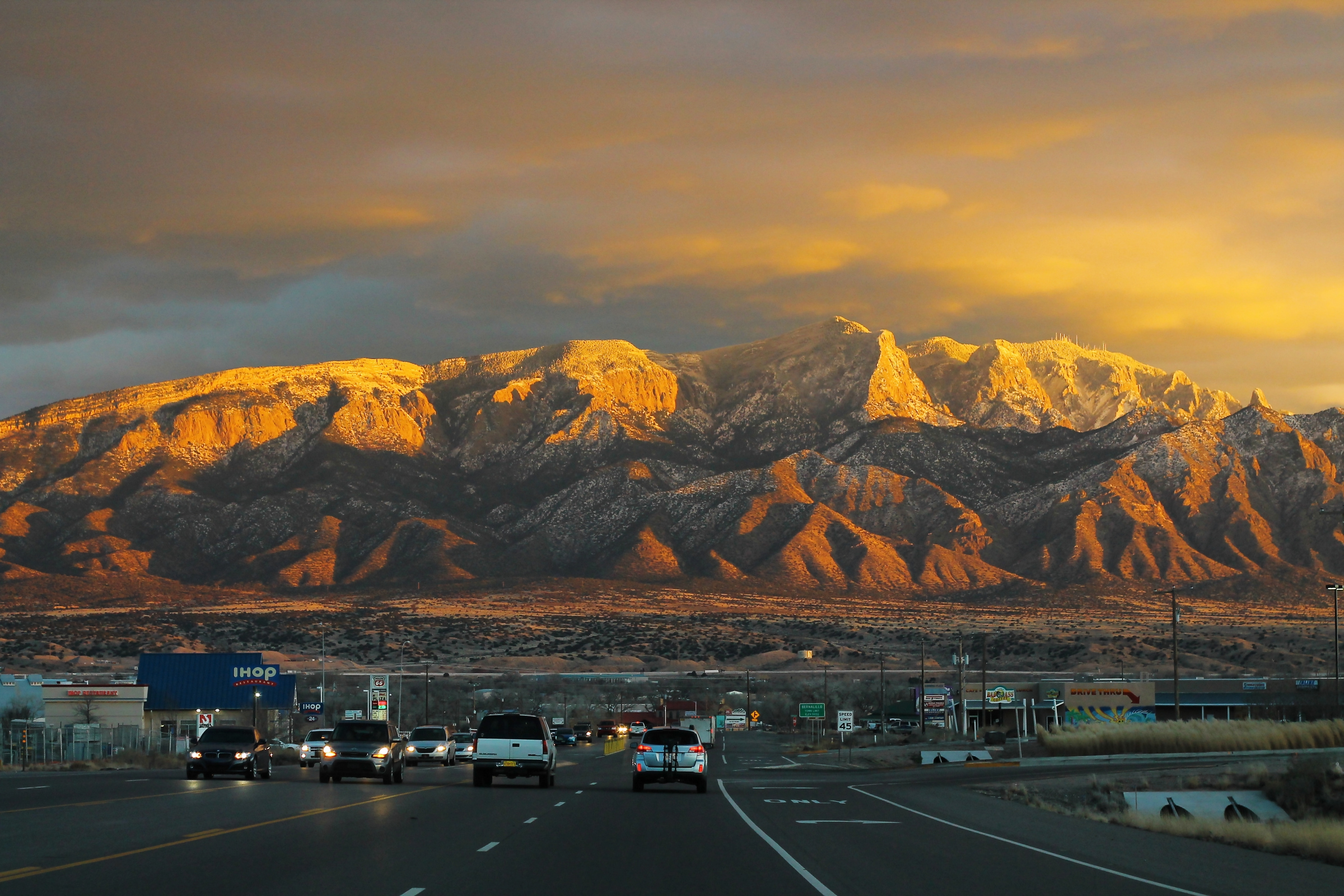 Sunset shines on the Sandia Mountains in Bernalillo, New Mexico.